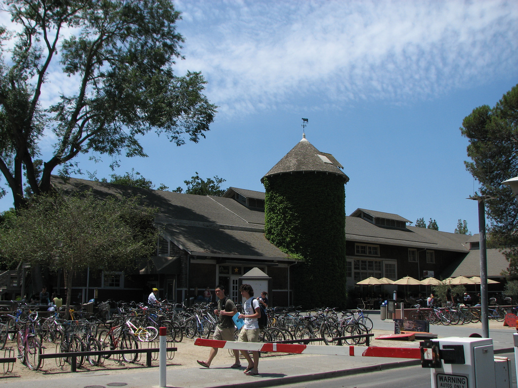 UCD Silo